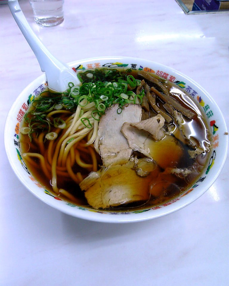 Takaida Tyuka-Soba (Ramen)